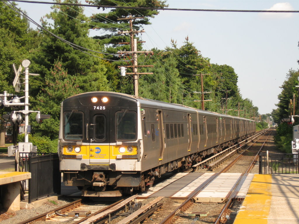 Long Island Rail Road train #757 enters the Stewart Manor station in Garden City, NY, traversing the New Hyde Park Road grade crossing on the Hempstead Branch. The train is composed of Bombardier M-7 cars.